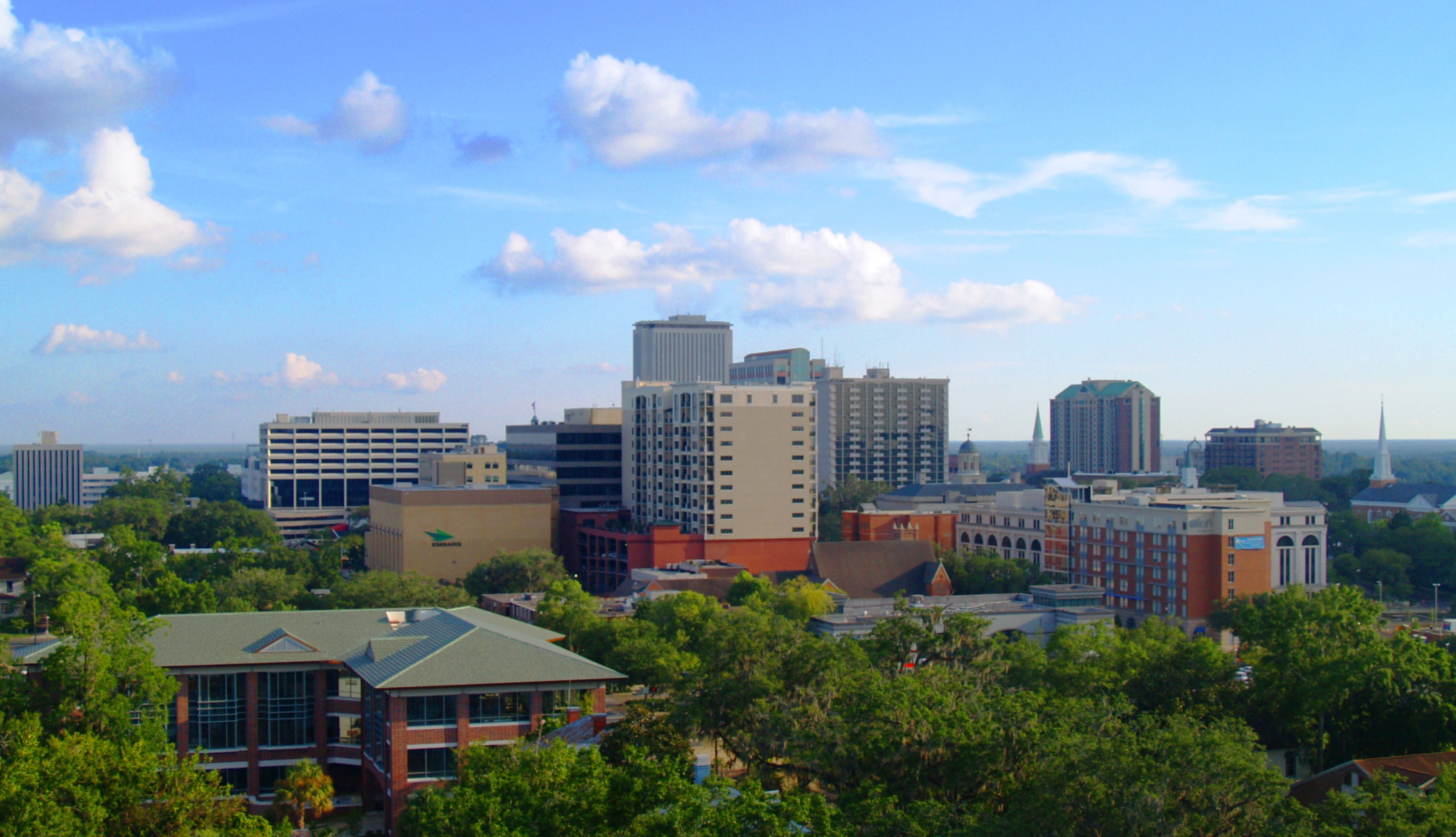 Tallahassee Florida Skyline